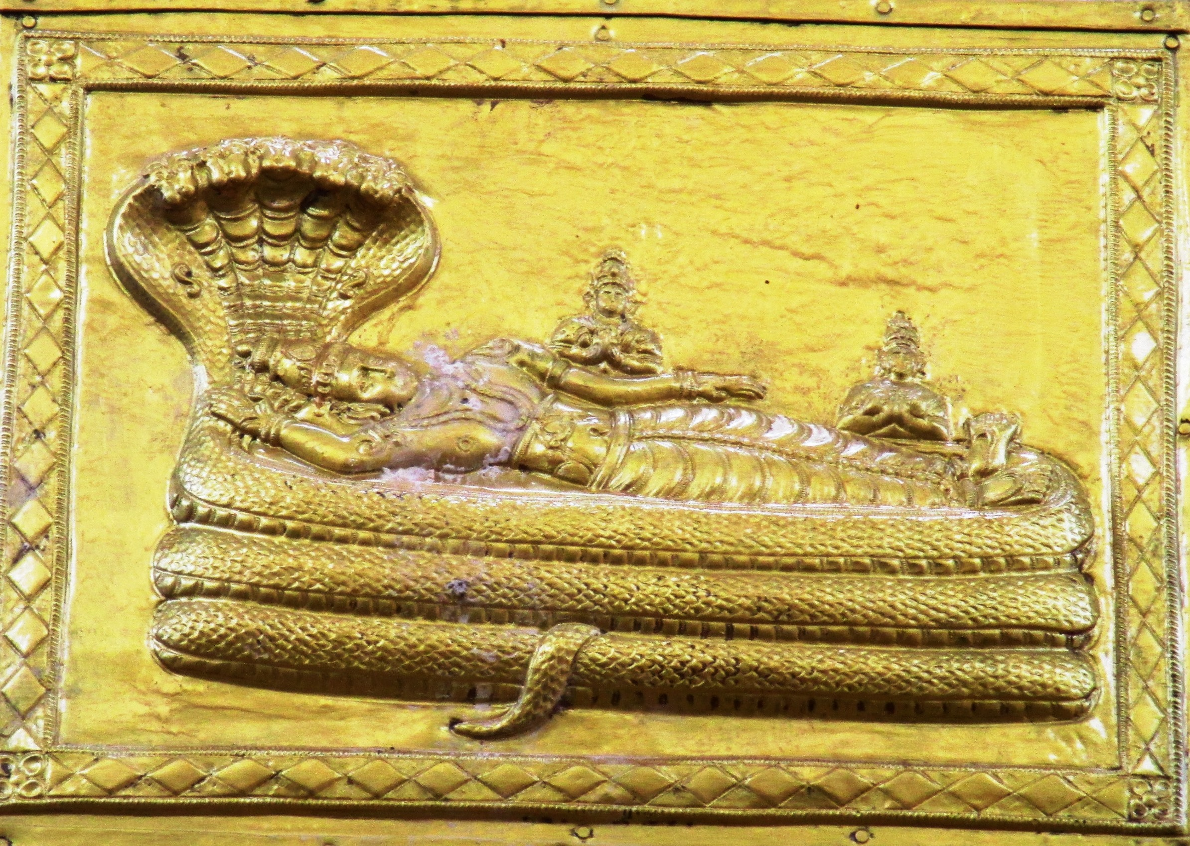 Appakkudathaan Perumal Temple